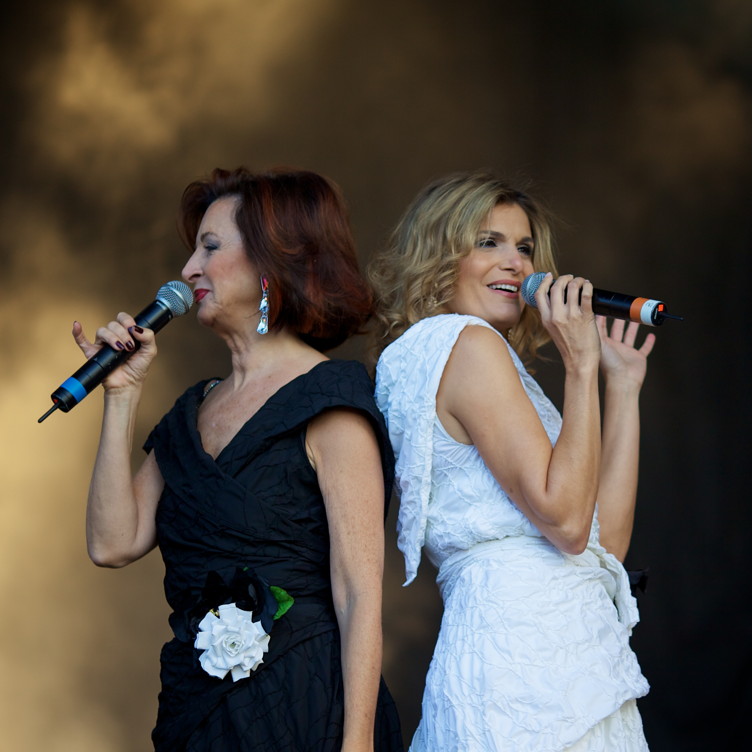 Baccara in Skien, Norway (2010).